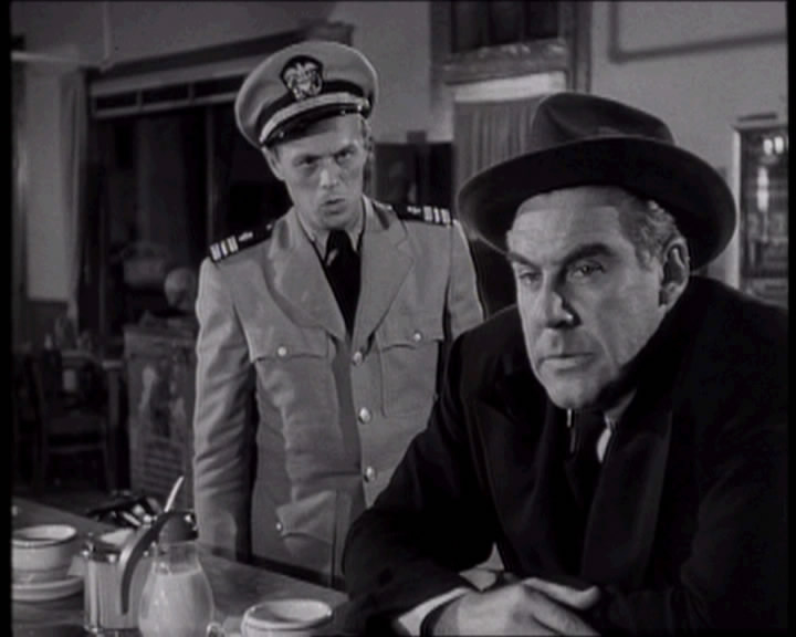 Panic in the Streets is a black and white, 96-minute film directed by Elia Kazan and released in 1950 by 20th Century Fox. It is film noir semidocumentary shot exclusively on location in New Orleans, Louisiana.